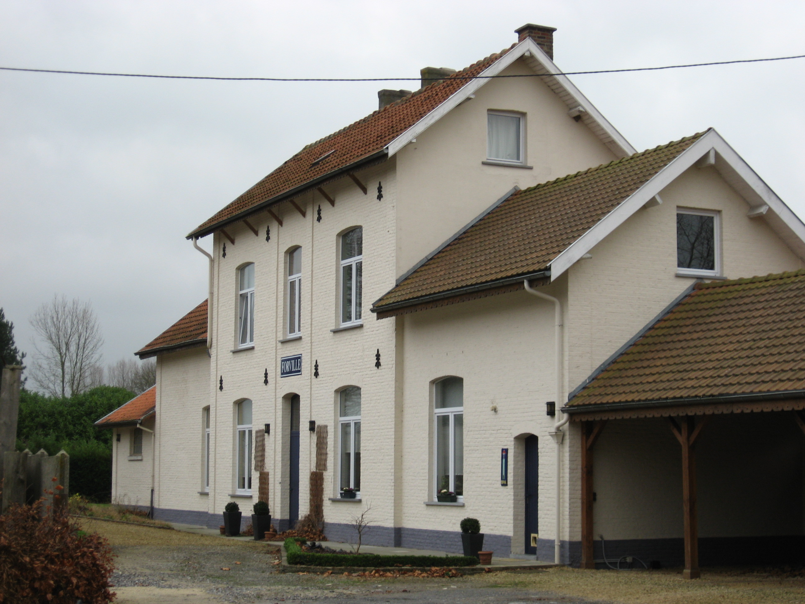 Vicinal station building of Forville now in use as a house.